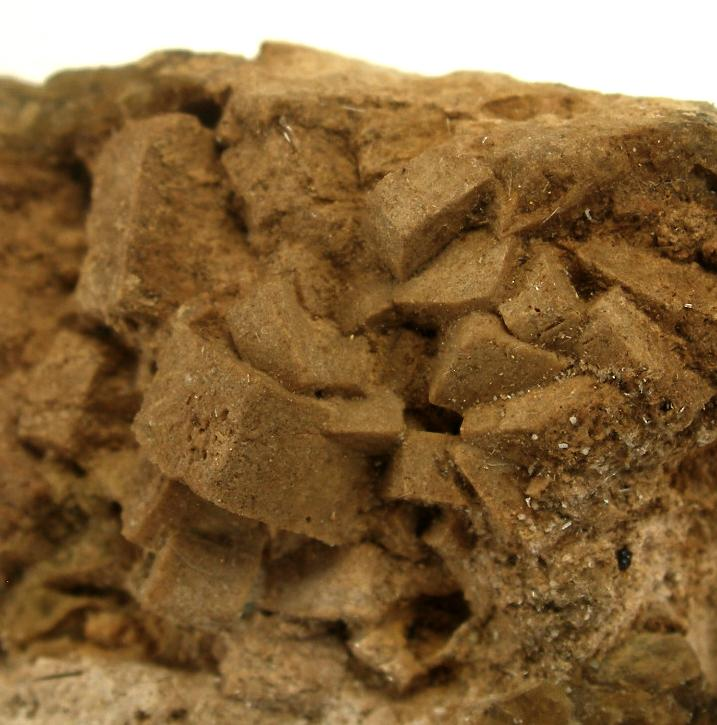 Gehlenite Locality: Monzoni Mts, Fassa Valley, Trento Province, Trentino-Alto Adige, Italy (Locality at ) Size: miniature, 4.3 x 3.7 x 2.2 cm Gehlenite A nice miniature featuring sharp crystals of gehlenite to 6mm, from the type locality for this calcium aluminosilicate species. Ex. John White Collection.